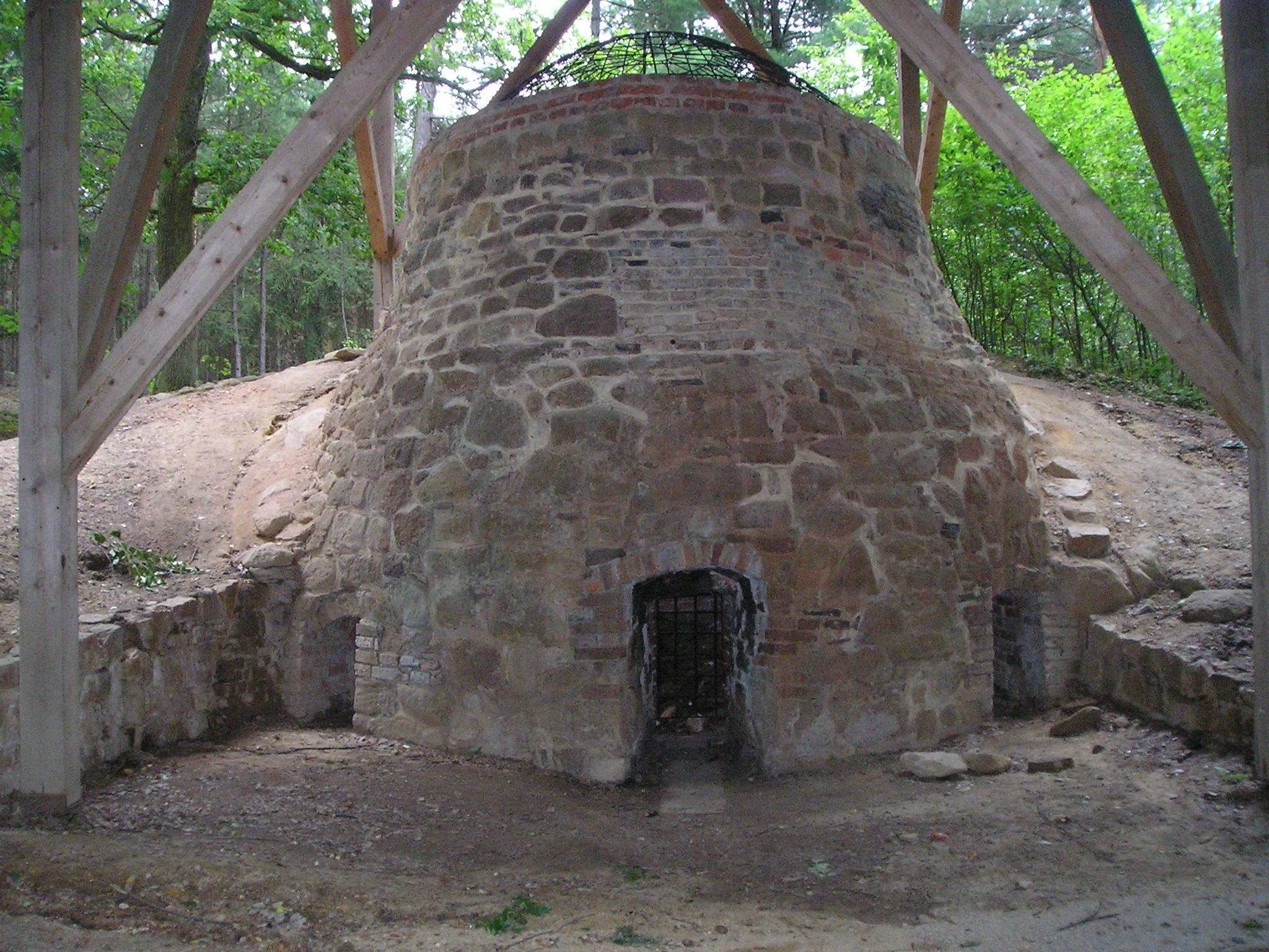 Tar furnace, Bolevec, Pilsen